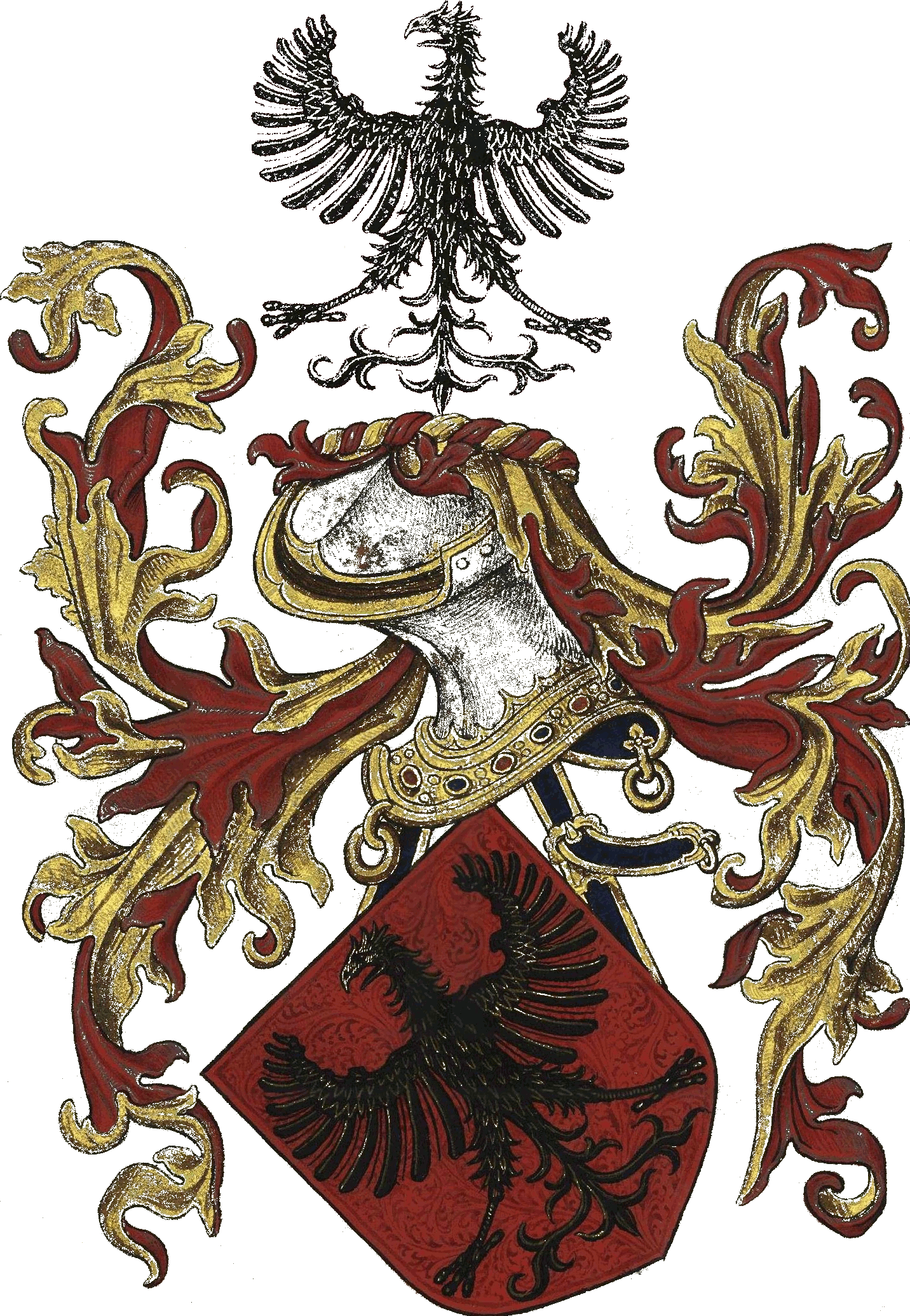 Adaption of a work from Jean du Cros dataed from year 1509